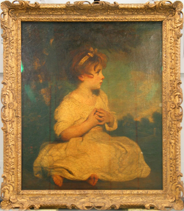 Frame contemporary with picture. From Houghton, 2005, 24.